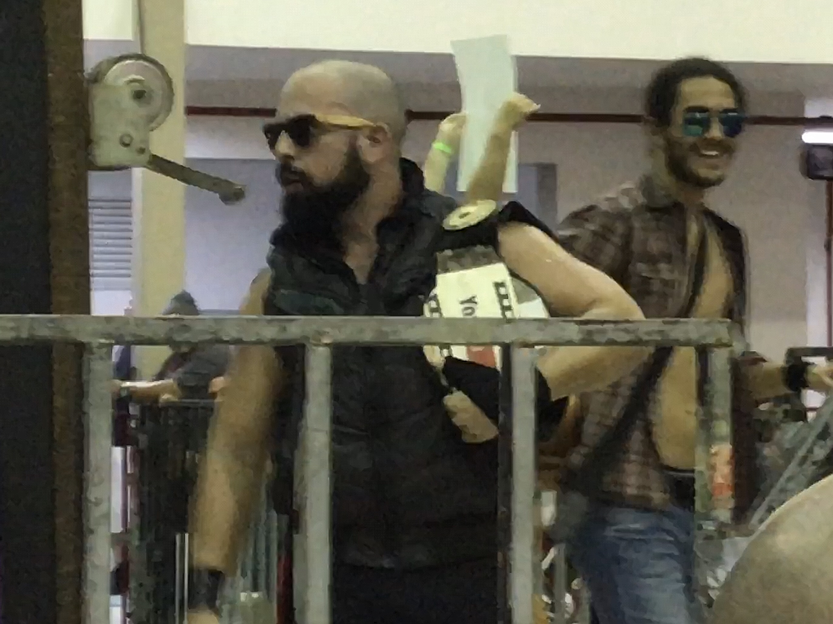 Profesional wrestler Carlos Cupeles with the IWA World Cruiserweight Championship at a World Wrestling League event.